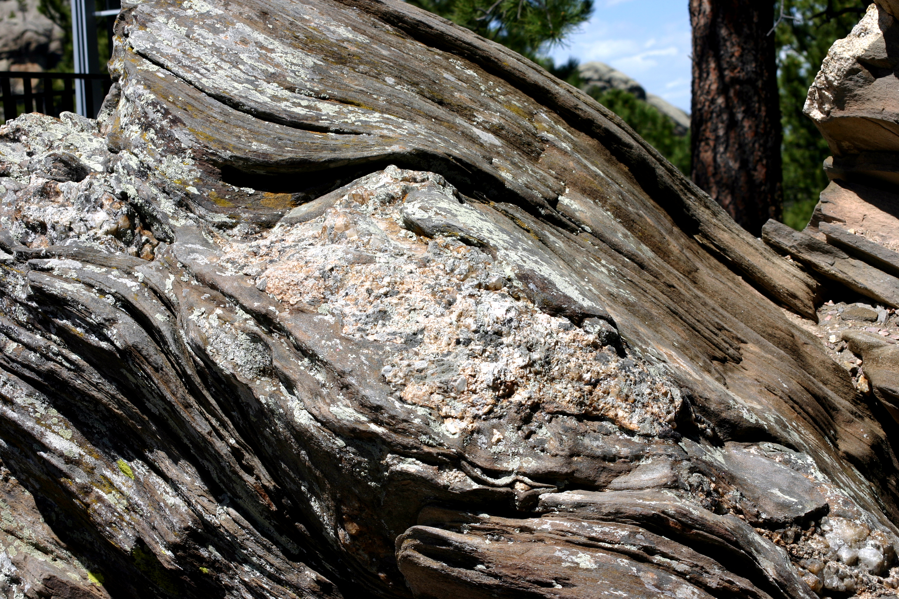 Mica schist and large sigma clast of Harney Peak granite, 1.6 billion years old. Black Hills, South Dakota, near Mount Rushmore.